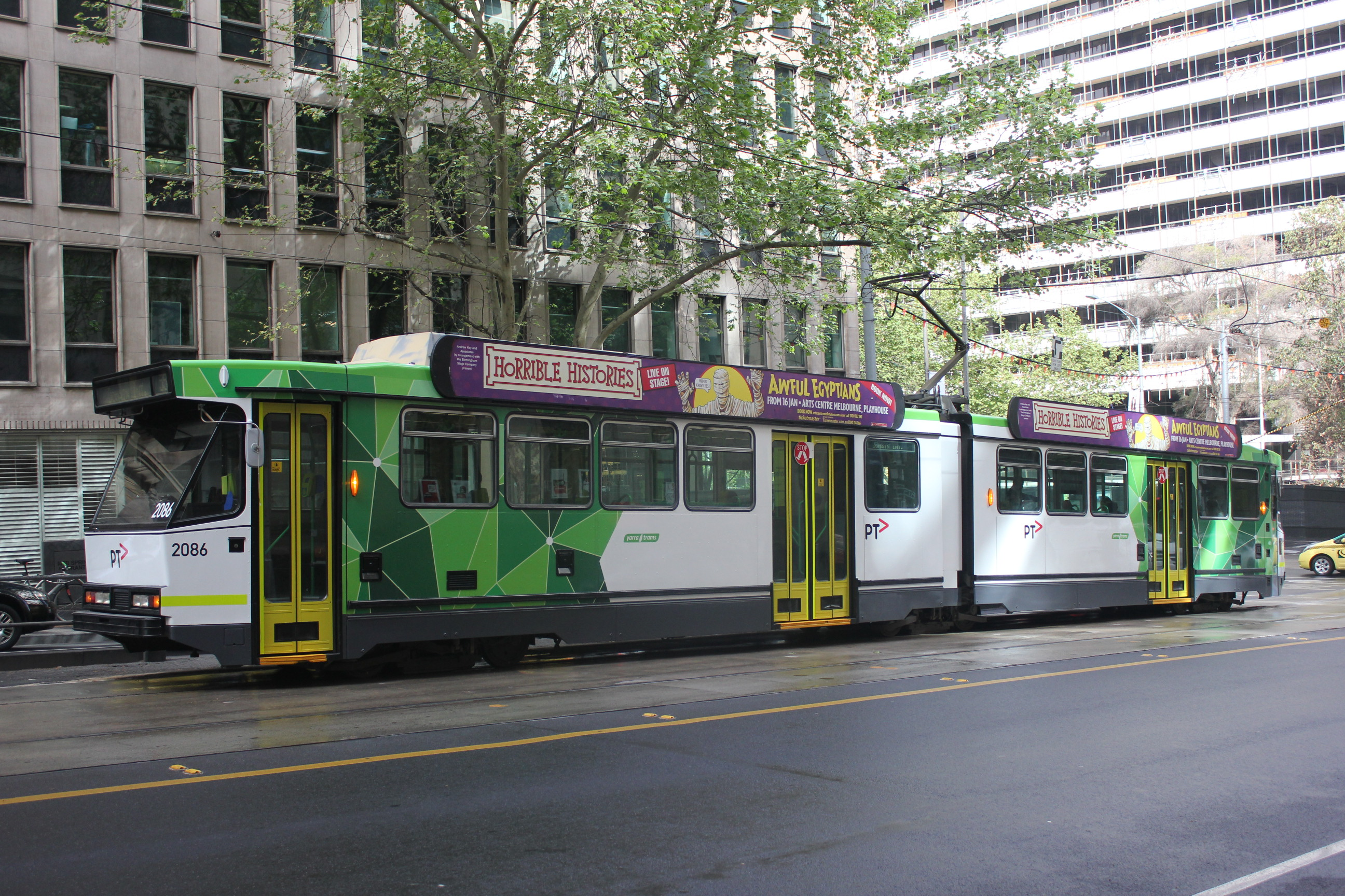 B2 2086 in Public Transport Victoria livery on route 55 at William & Collins Streets, October 2014